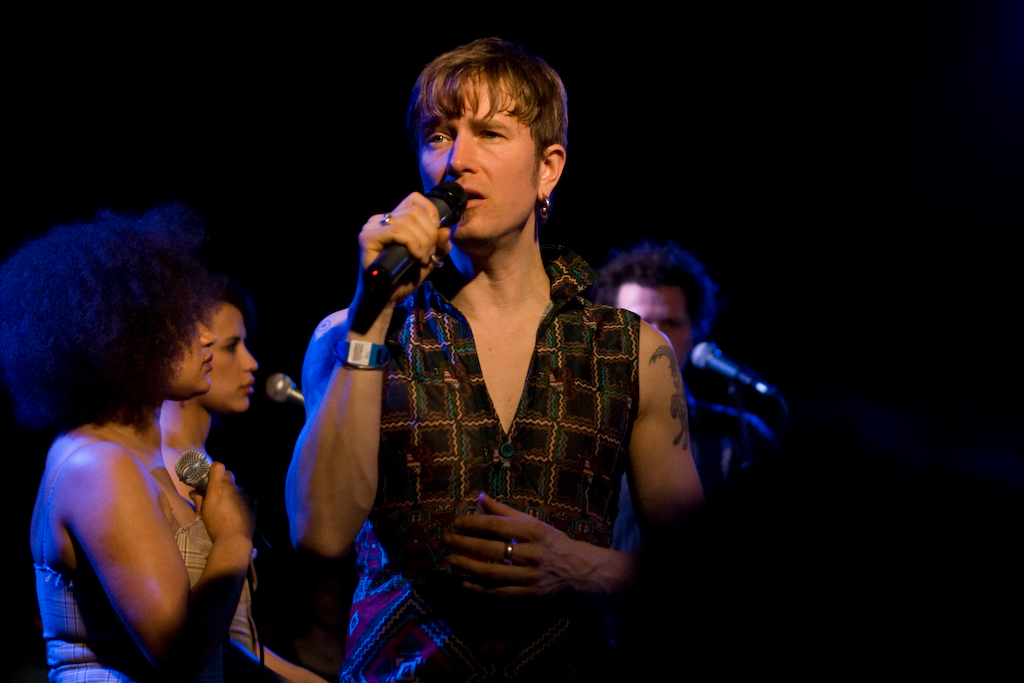 Zita Swoon's "Band in a box" at Het Depot (Leuven) for Drieduizend.